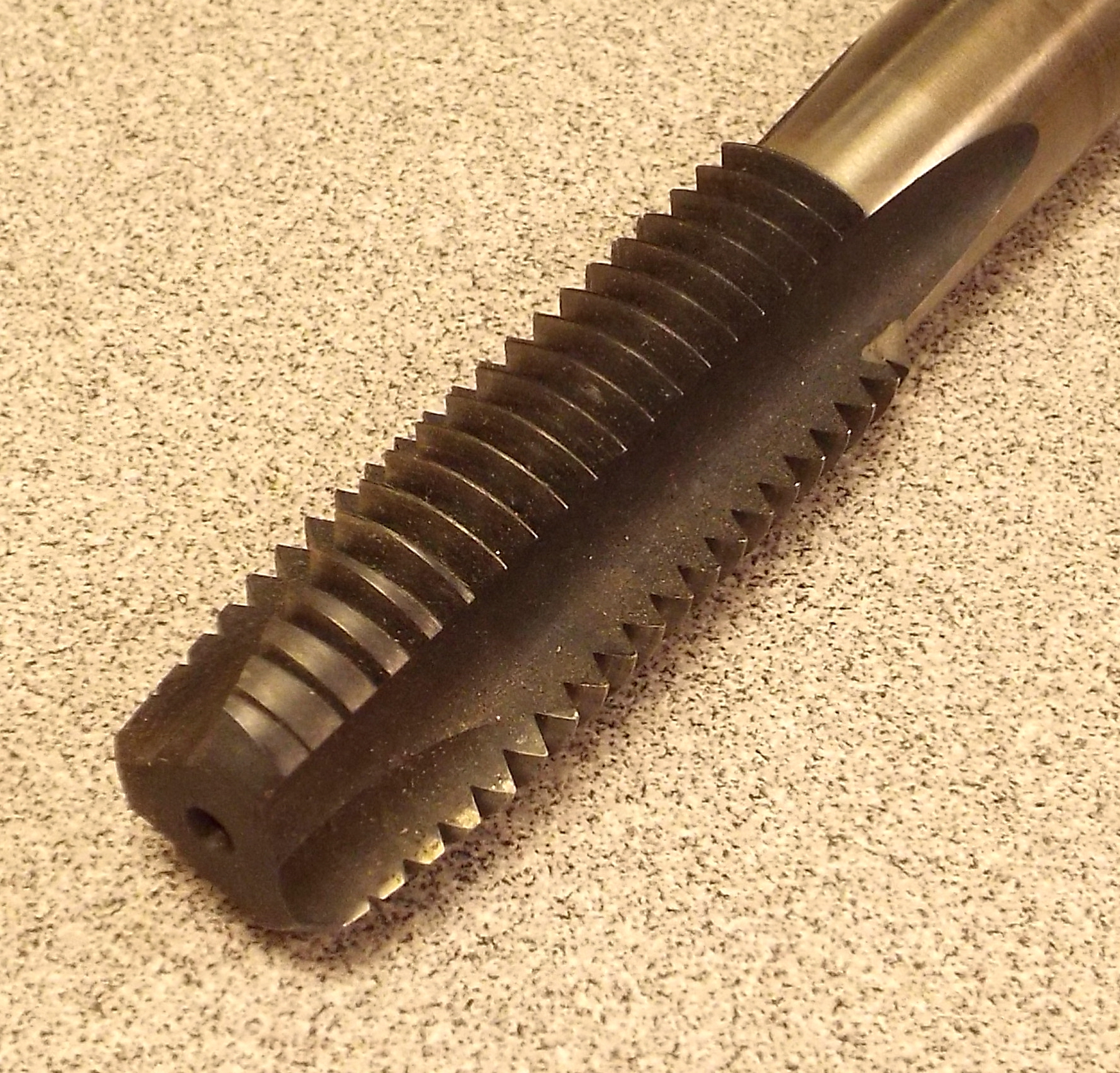 Photograph of a 3/4"-10 spiral point tap.